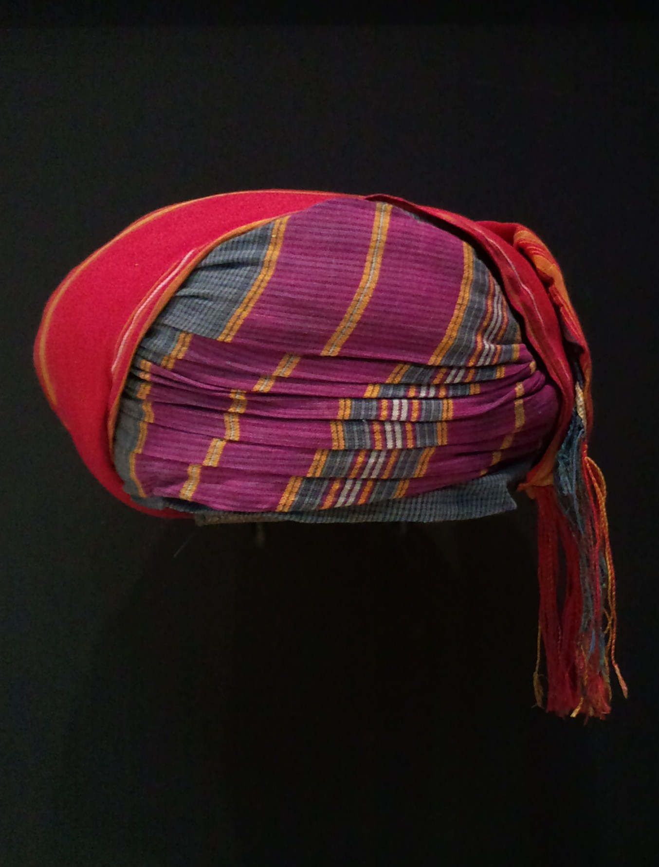 Keffiyeh as worn on a kumma by the Royal Family Bin Said of Oman, exibition Oman, Amsterdam 2009-2010